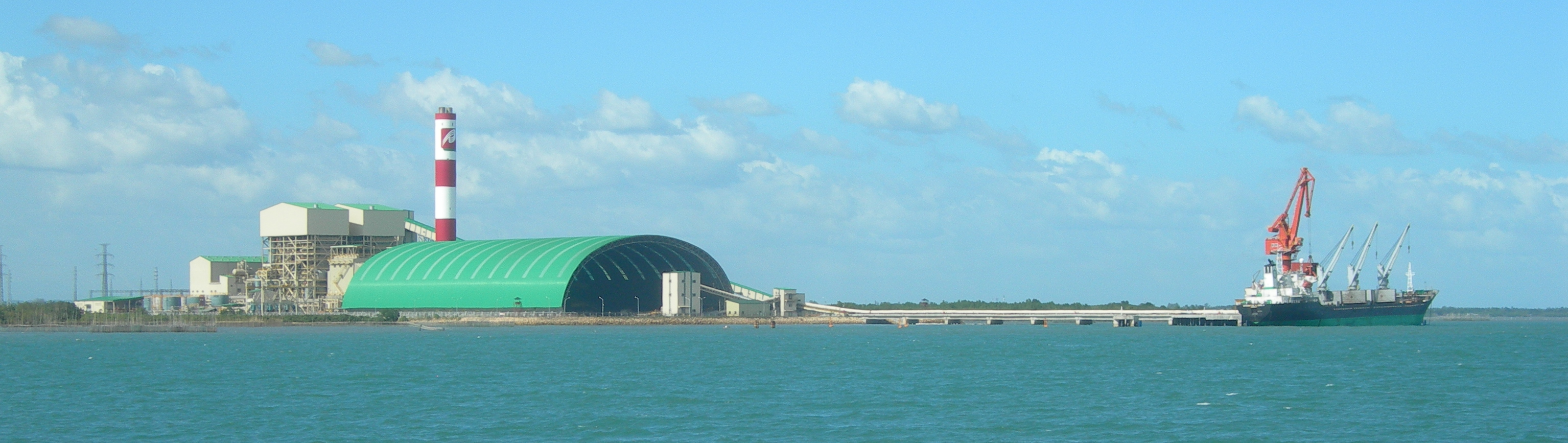 Coal power plant in Iloilo City, the Philippines